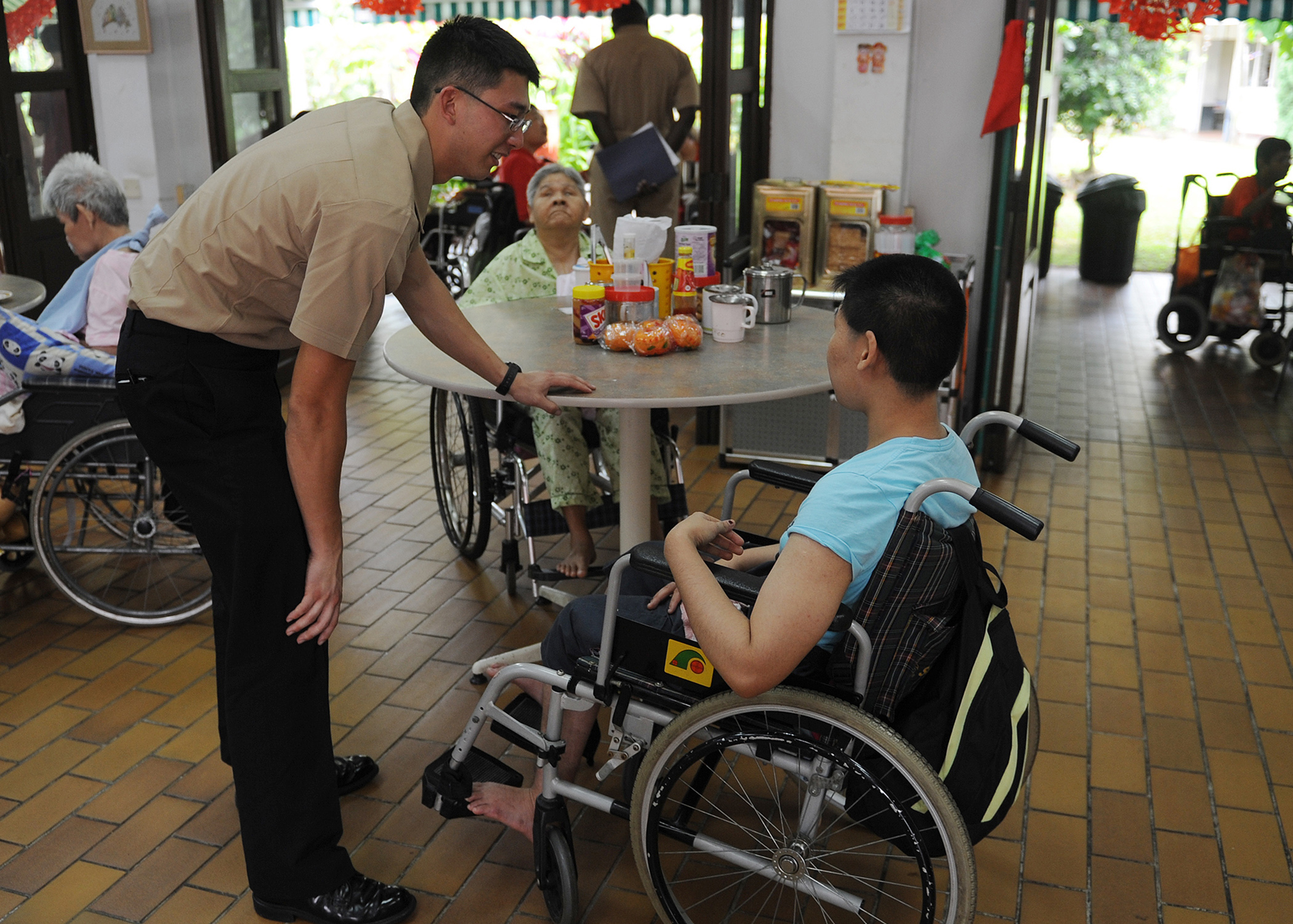 SINGAPORE (Jan. 28, 2012) Seaman Recruit Michael Schultz interacts with a resident at the Singapore Cheshire Home Day Care Centre as part of a community service project in Singapore. John C. Stennis is operating in the U.S. 7th Fleet area of operations while on a seven month deployment. (U.S. Navy photo by Mass Communication Specialist 3rd Class Grant Wamack/Released) 120128-N-BS846-073